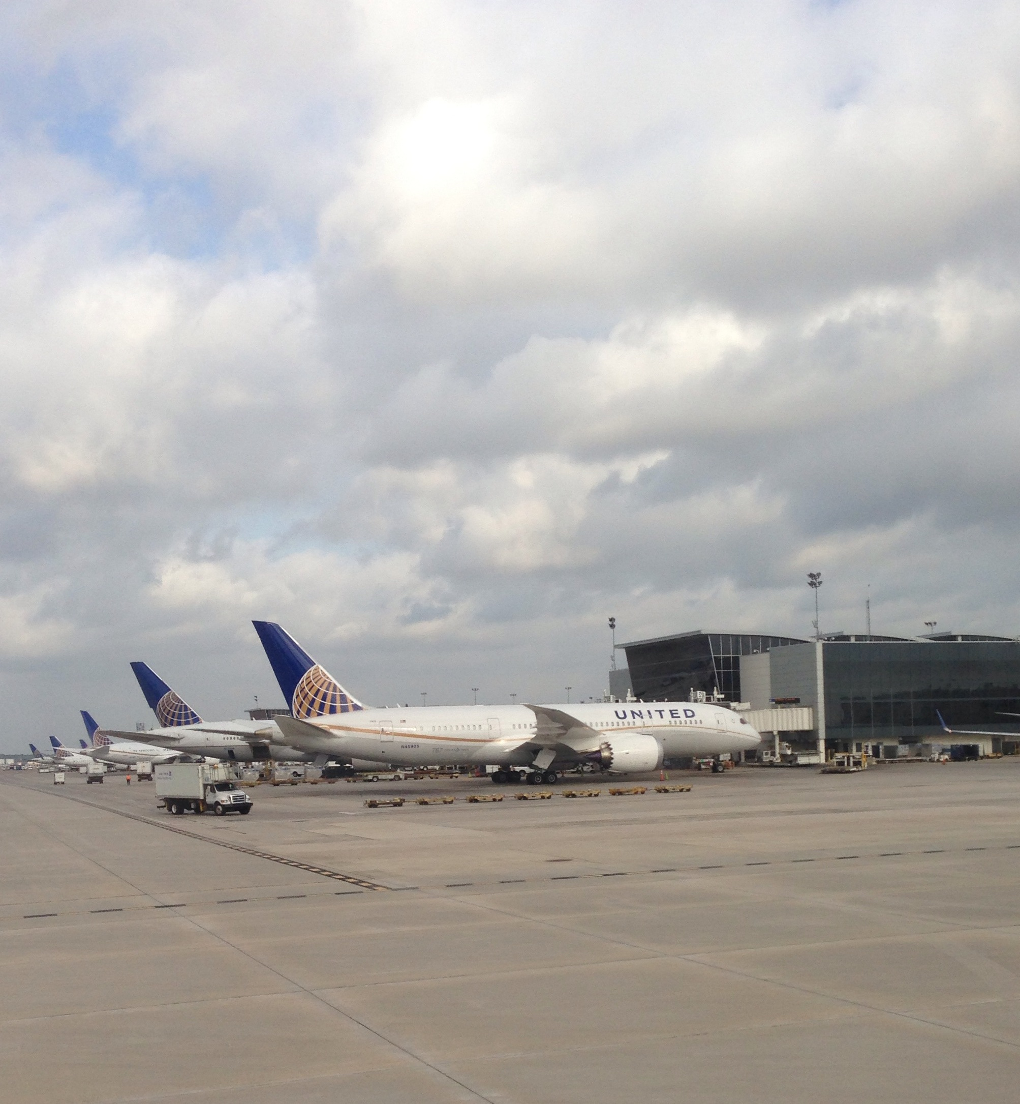 United Airlines B787-8 parked at Houston Intercontinental gate E7 awaiting its first commercial flight since battery issues grounded the global fleet in January.